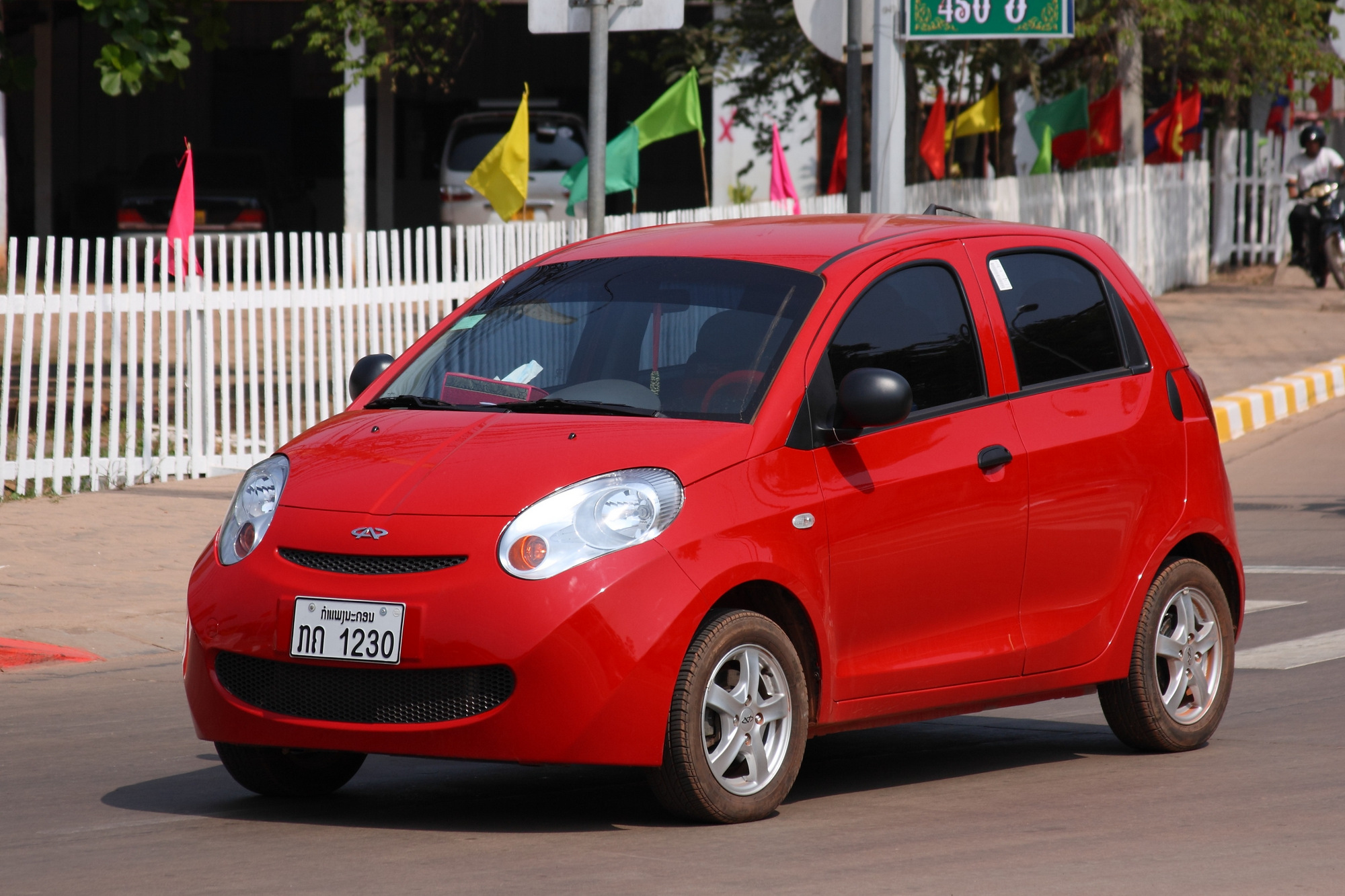 Chery M1 in Vientiane, Laos